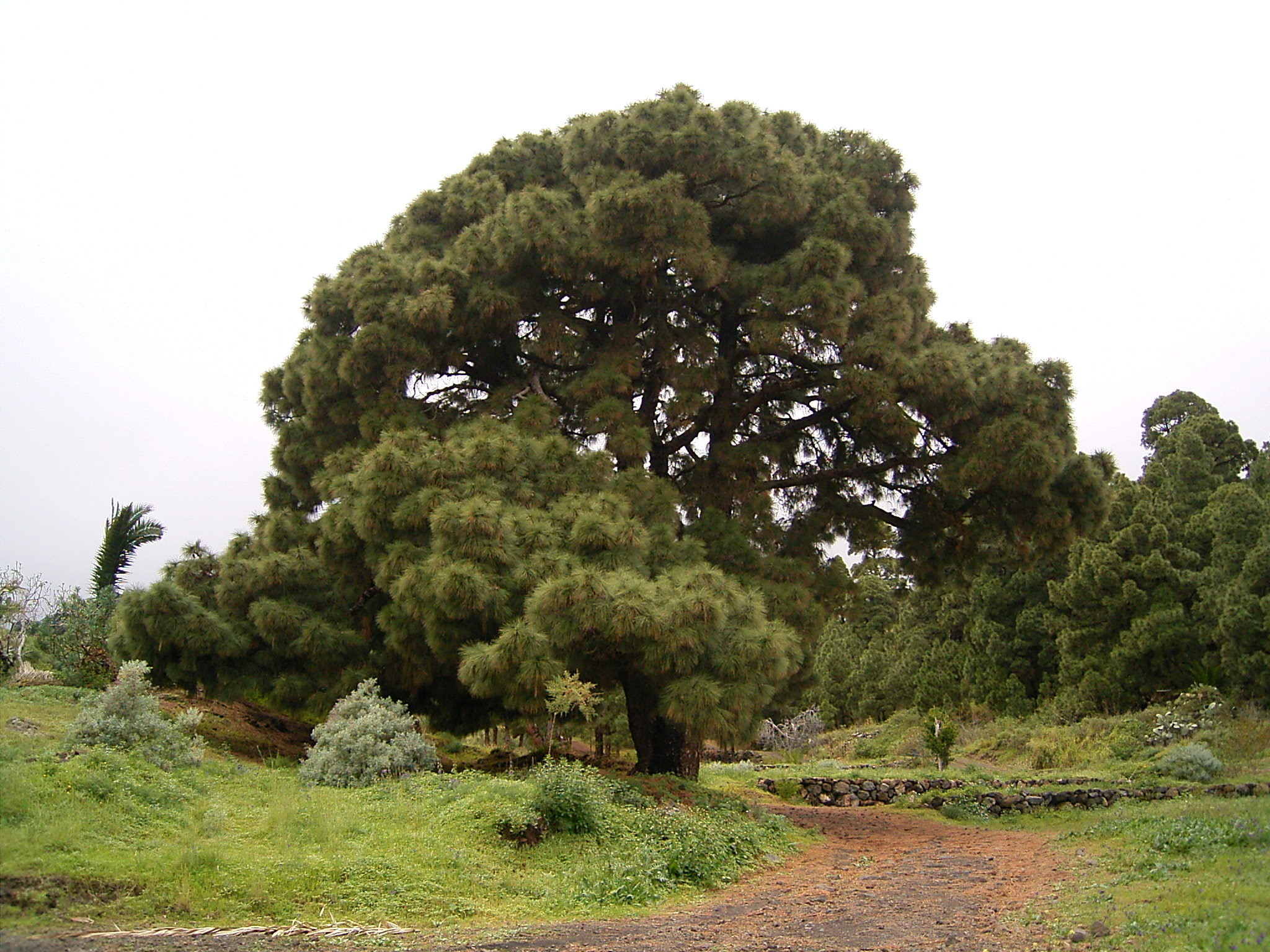 Pinus canariensis growing in Santa Cruz de La Palma, La Palma, Canary Islands